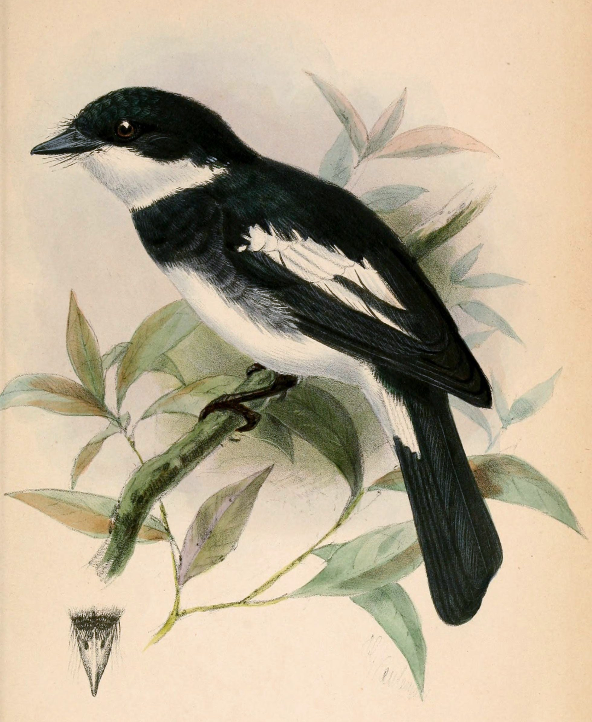 « Pseudobias wardi » = Pseudobias wardi (Ward's Flycatcher)